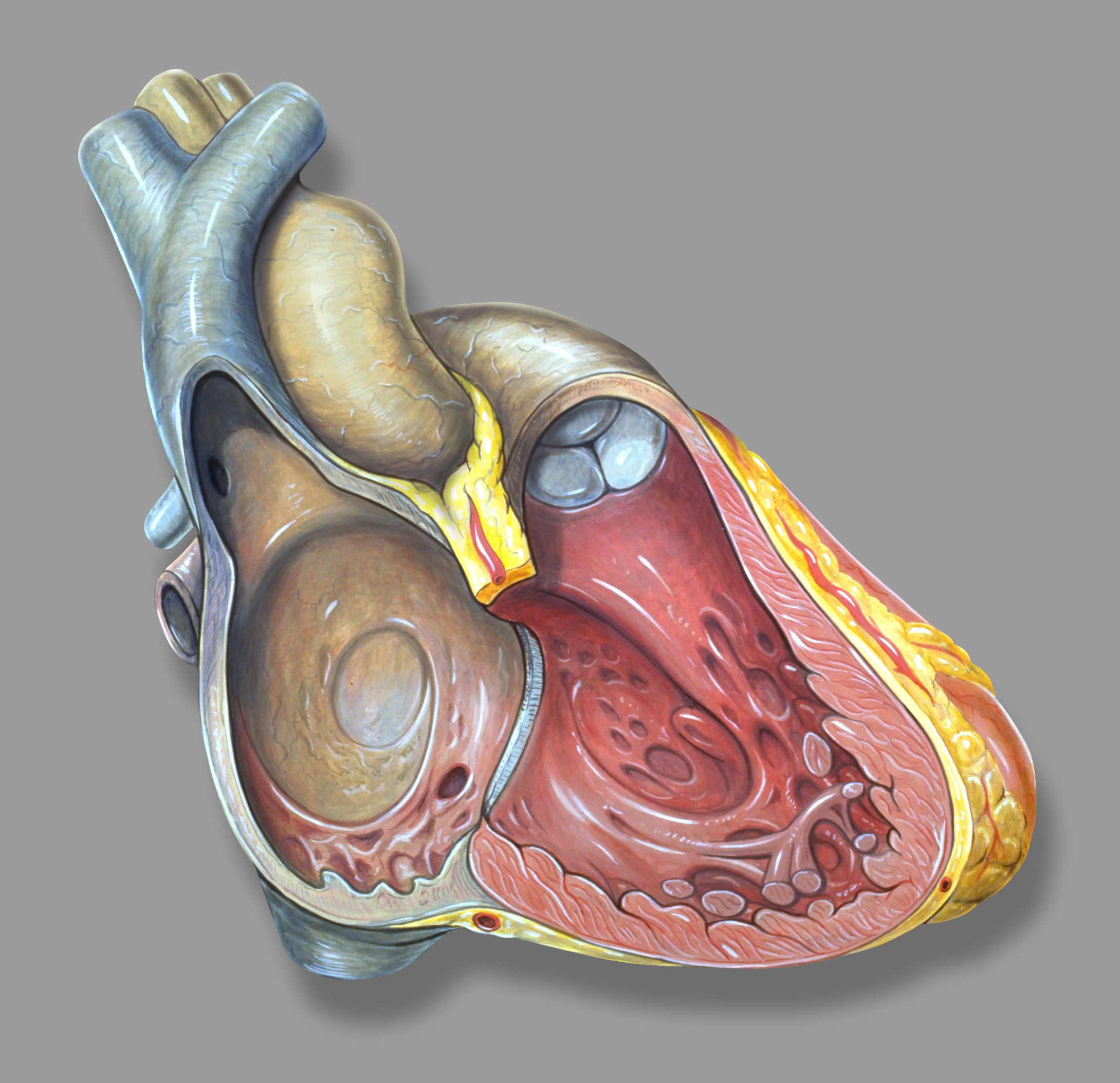 Anatomic view of right heart structures